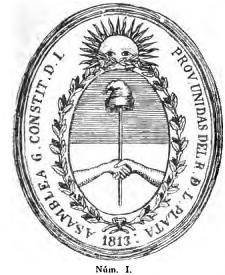 Coat of arms of Argentina, as seen on the seal of the Sovereign Constituent Assembly of Río de la Plata (mostly known as "Assembly of the Year XIII".